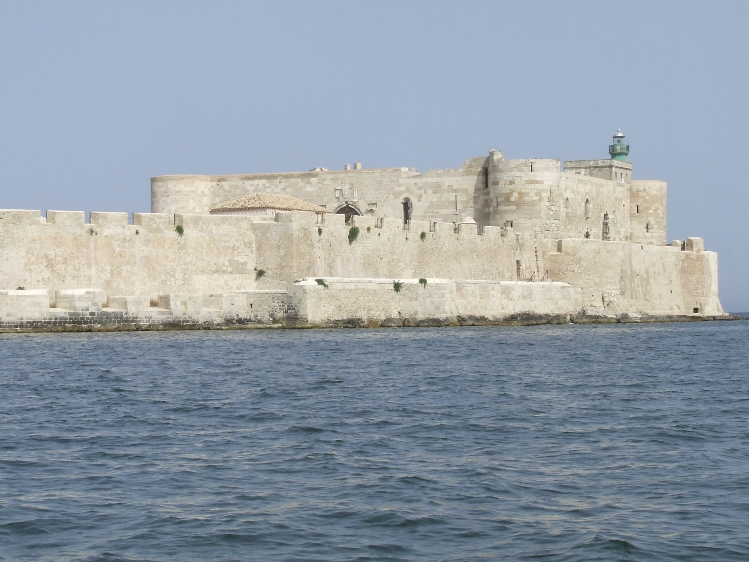 The western facade of the Castello Maniace, Syracuse, Sicily as viewed from the seaward side of the Marina Grande.